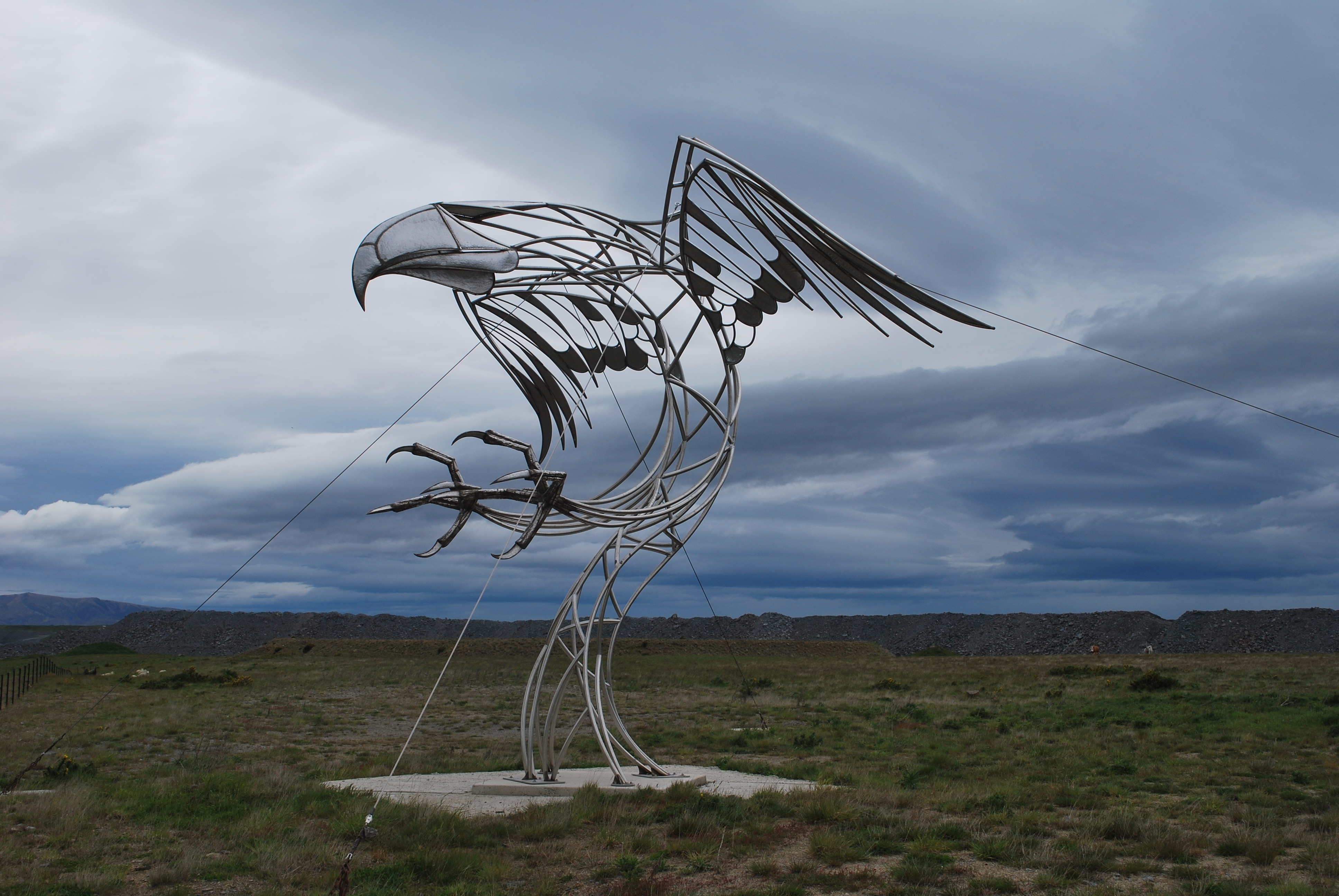 A scuplture of a Haast's Eagle on the Macraes Mine site near Macraes Flat, New Zealand